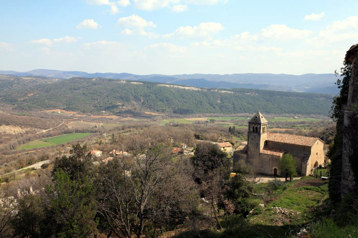 Village of Viens in Vaucluse, France